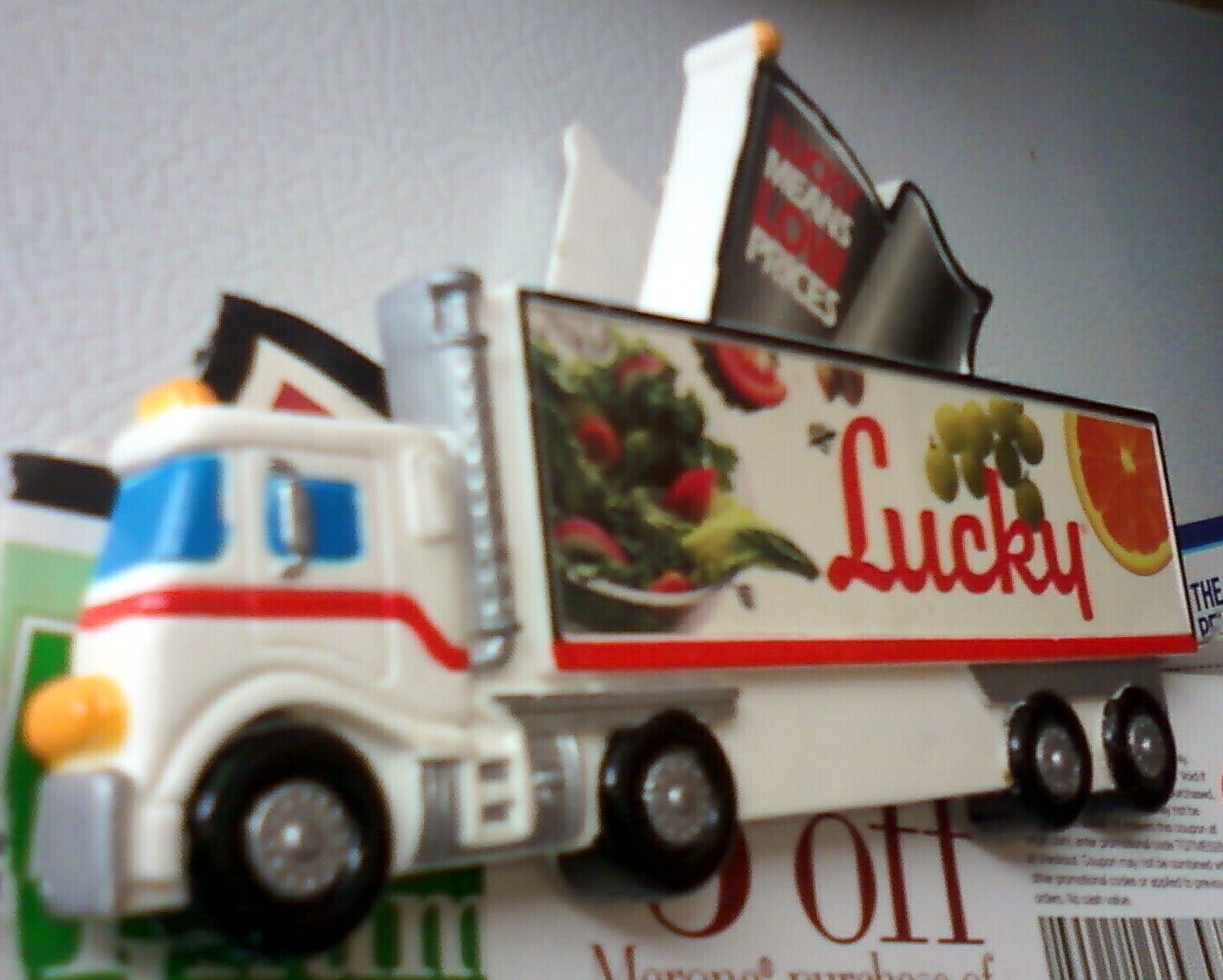 A Lucky refrigerator magnet dated circa 1990s.This photograph was taken with a Samsung Reclaim SPH-m560 mobile phone camera and edited (color balance, sharpness) using ArcSoft PhotoStudio 5.5